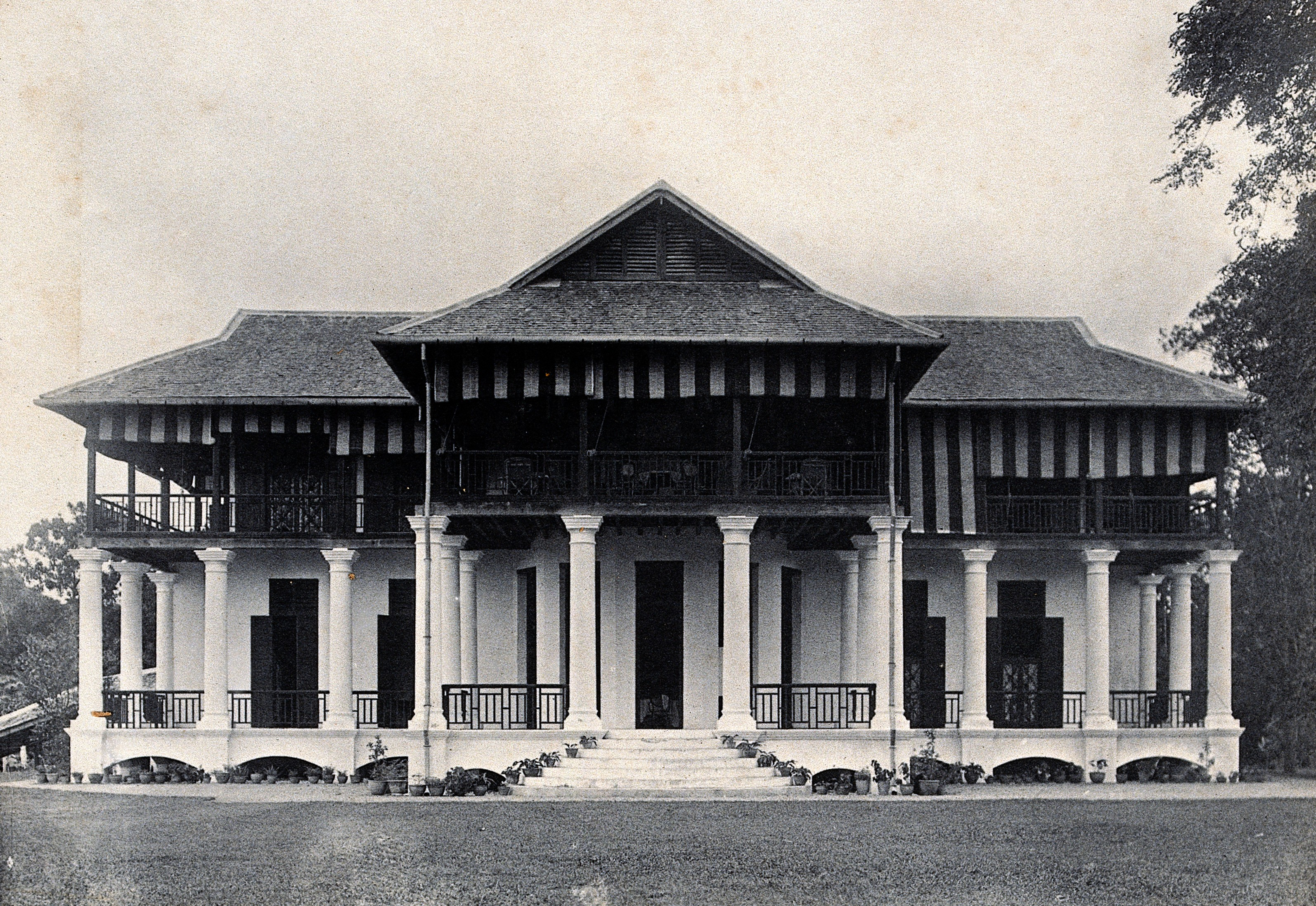 Kuching, Sarawak: the Borneo Company's building. Photograph. Iconographic Collections Keywords: Charles Hose; Borneo; Borneo Company (Kuching, Sarawak); Anthropology; Malaysia; Ethnography